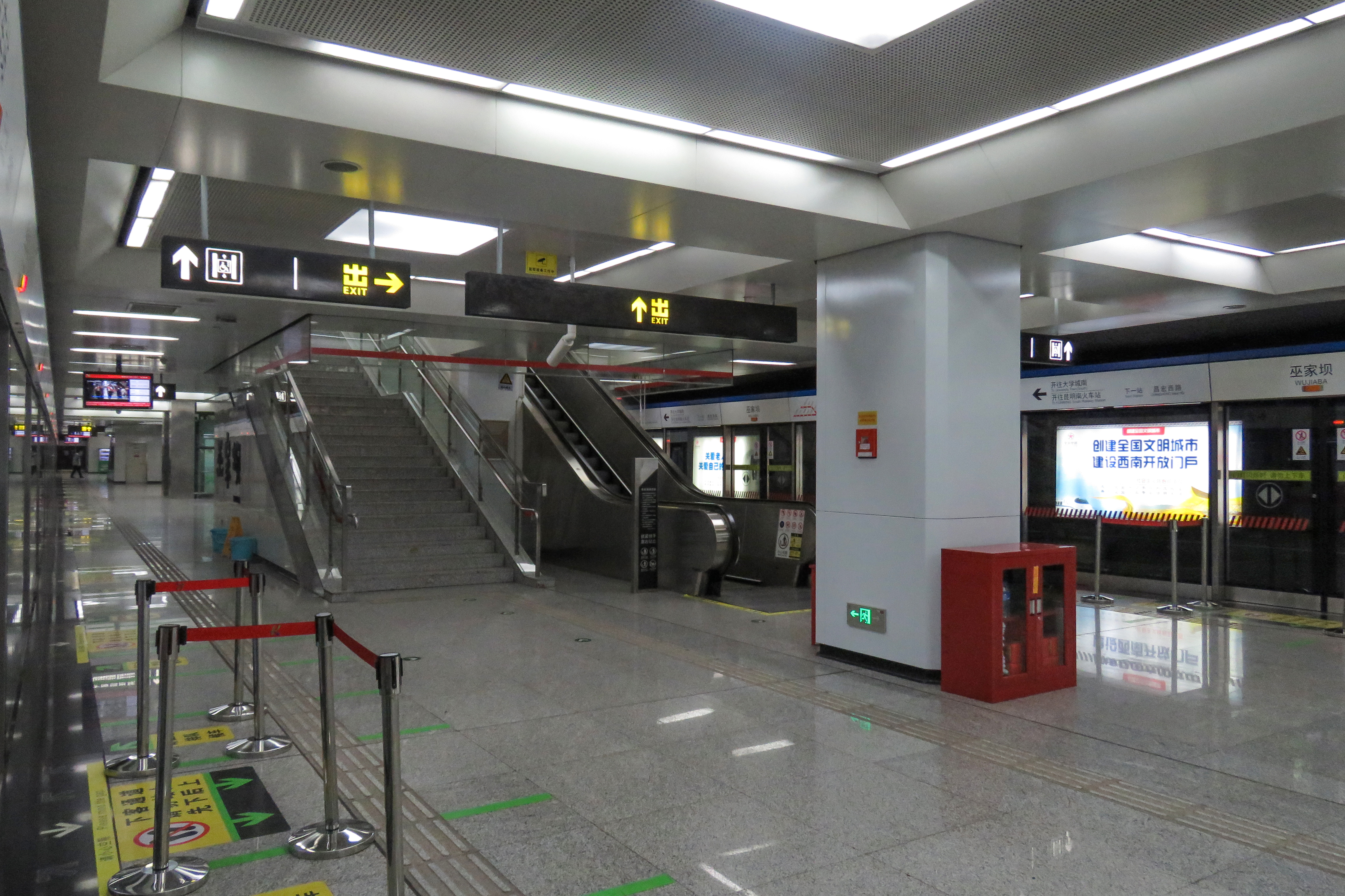 The airport has already gone...